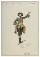 Costume design for Mirobolant in the opera Le lazzarone by Fromental Halévy. Date 1844